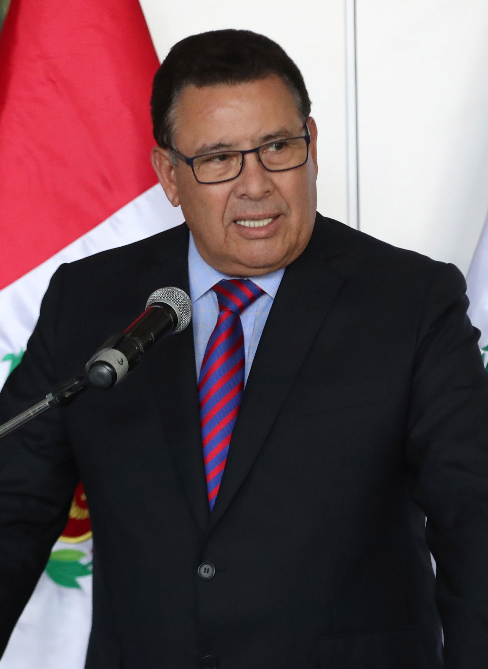 Cropped from a picture of José Huerta in an official ceremony (2018)